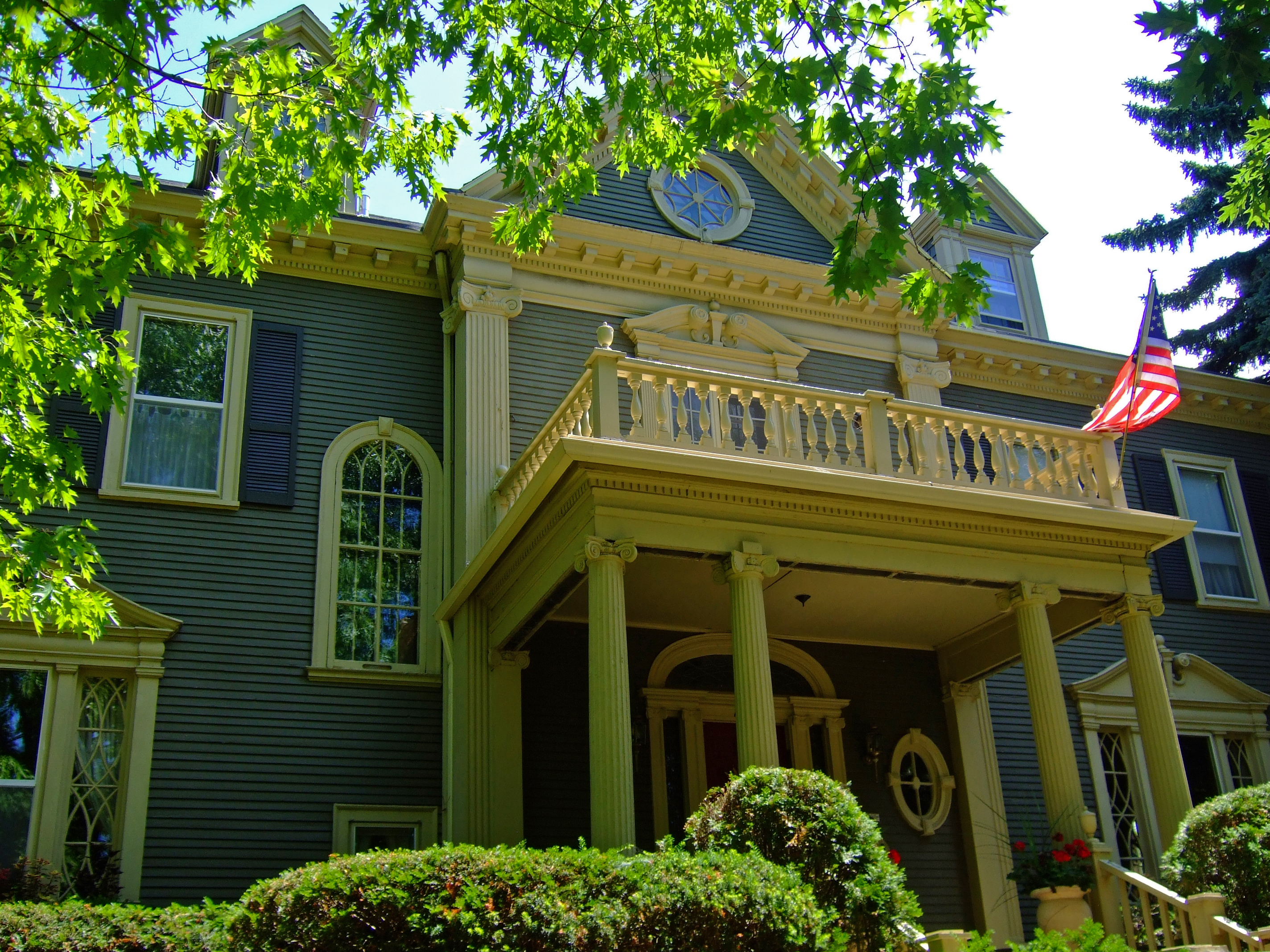 The Ely House (1896) at 205 N. Prospect Avenue in Madison, Wisconsin, was commissioned by Richard T. Ely, nationally known economist and professor at the University of Wisconsin. In the academic freedom case involving Ely's allegedly radical views, the university's Board of Regents vindicated him and broadly endorsed "that continual and fearless sifting and winnowing by which alone the truth can be found." Designed in the Georgian Revival style by Chicago architect Charles Sumner Frost, the house was added to the National Register of Historic Places in 1974.